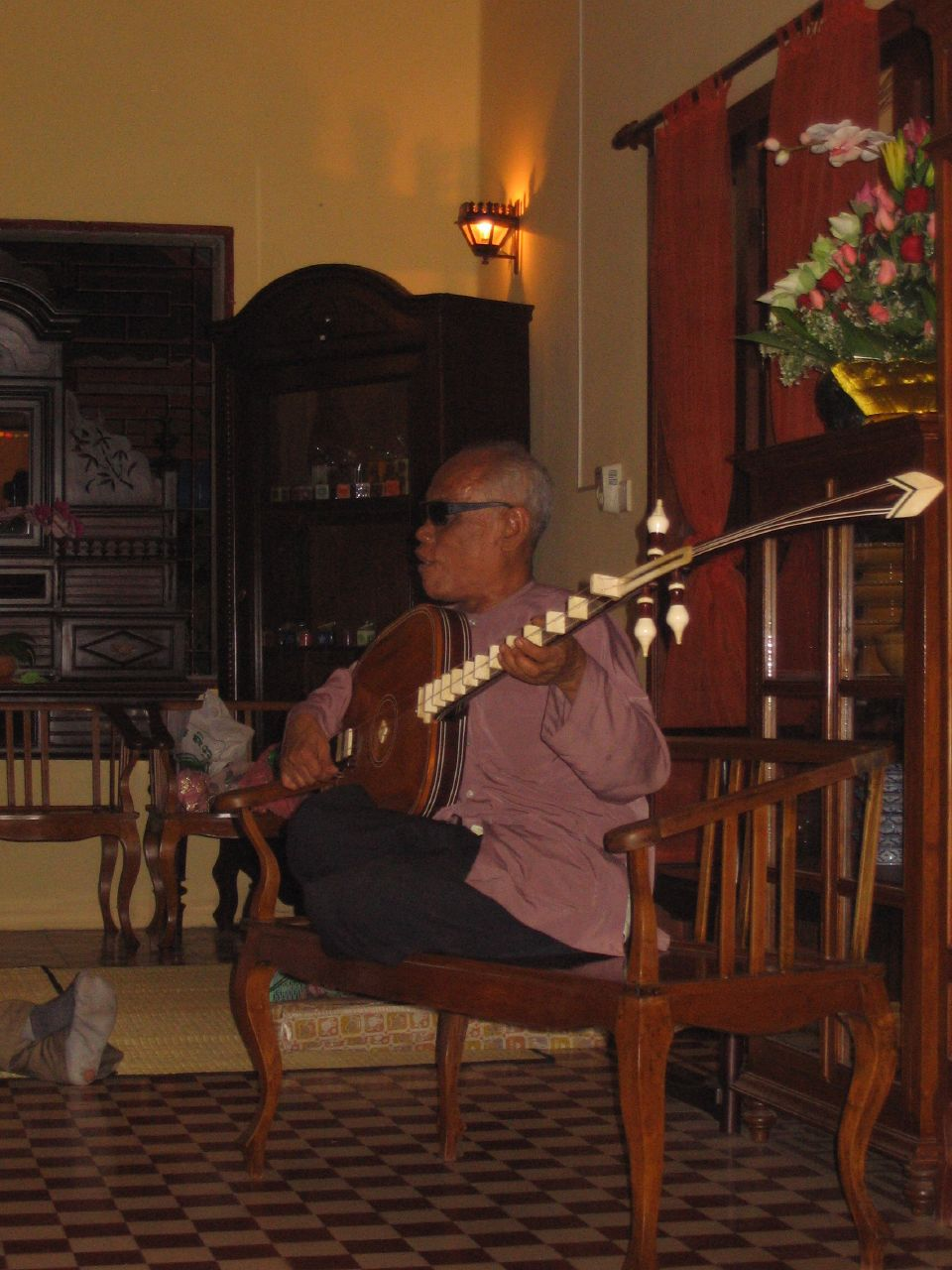 master musician performs